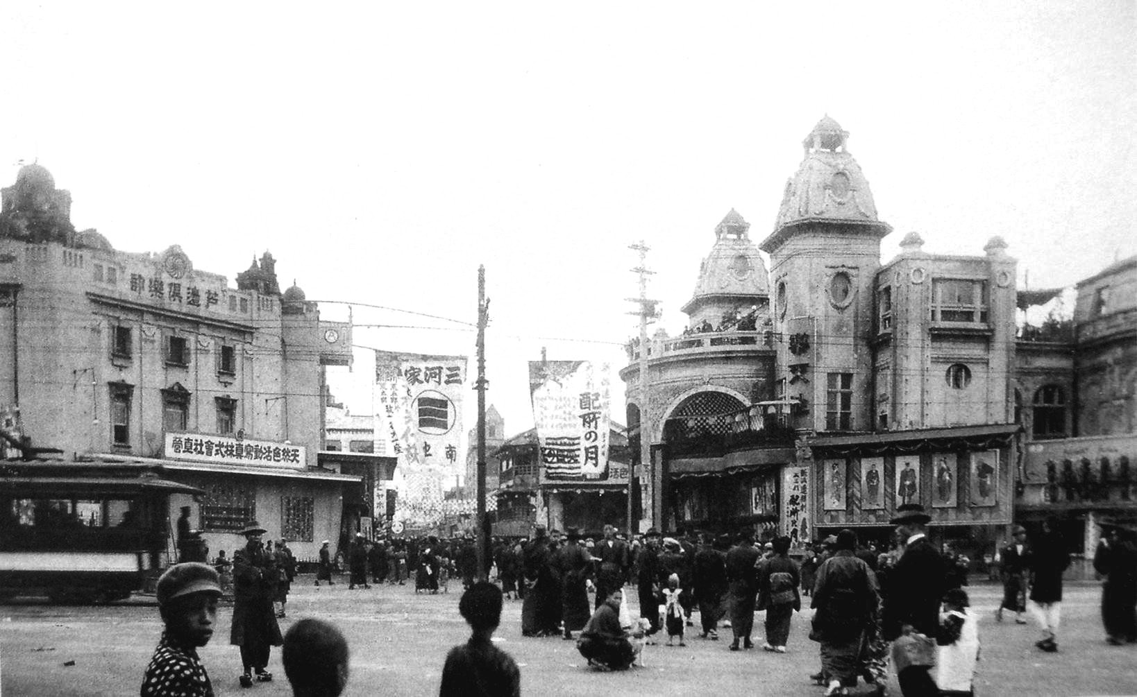 Street view of Sennichimae, Chuo-ku, Osaka, Japan (ca.1916).